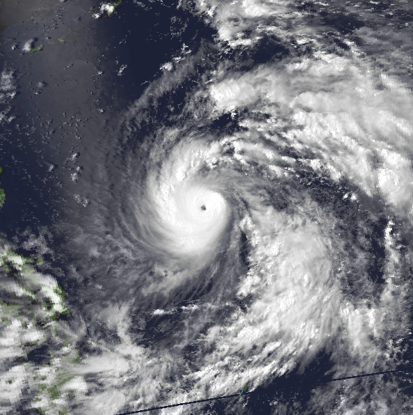 Image of Typhoon Abby of the 1983 Pacific typhoon season on August 8, 1983.